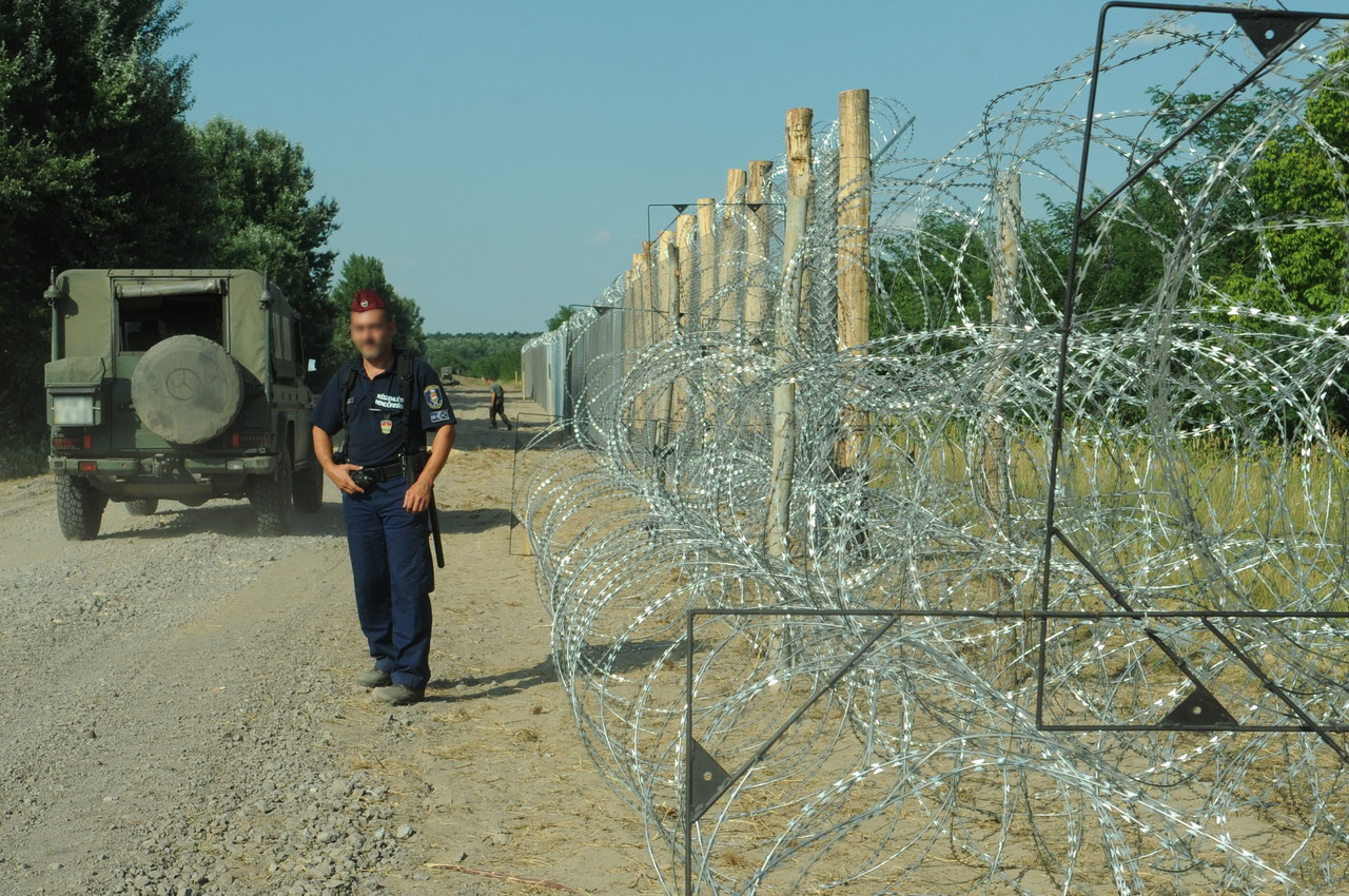 Barrier in Hungarian-Serbian border